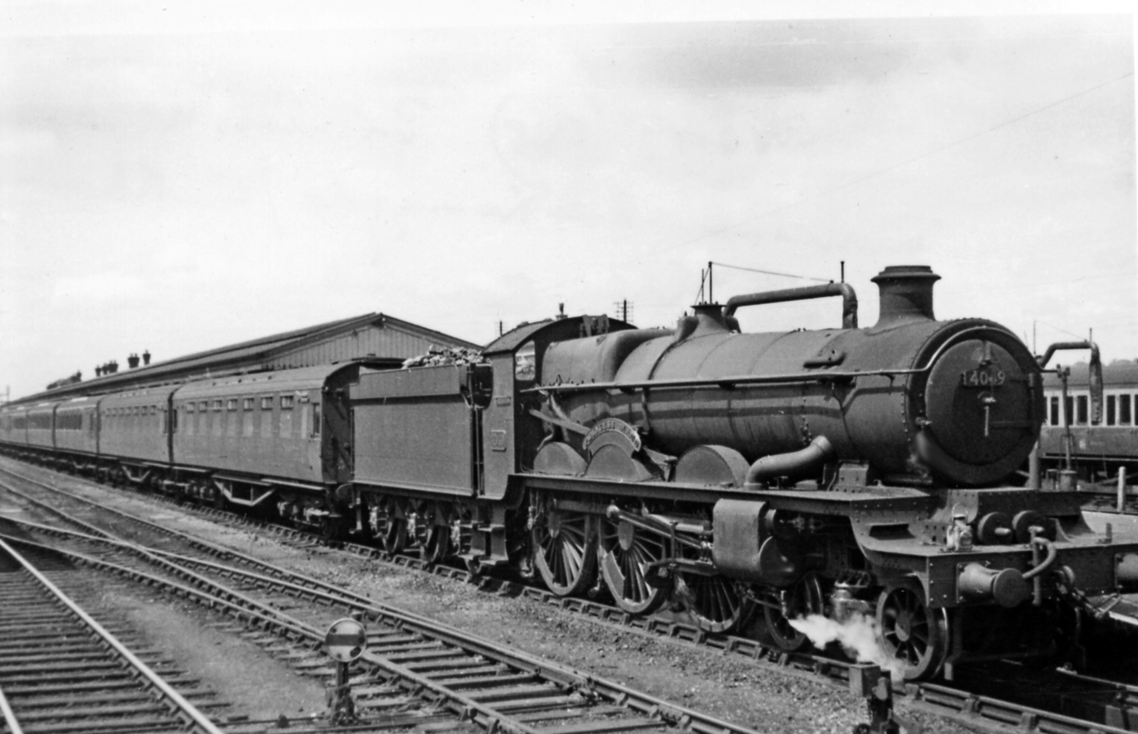 Cross-country express at Reading in 1949. Churchward 'Star' 4-6-0 No. 4049 'Princess Maud' has arrived at Reading (General) with the Birkenhead (via Birmingham Snow Hill and Oxford) to Ramsgate and Eastbourne express. The train will be taken on by a SR locomotive via Guildford to Redhill, where it will divide. No. 4049 had seen better days, having been built in 1914 and worked top GWR expresses for about 20 years, but was to be withdrawn in 7/53.